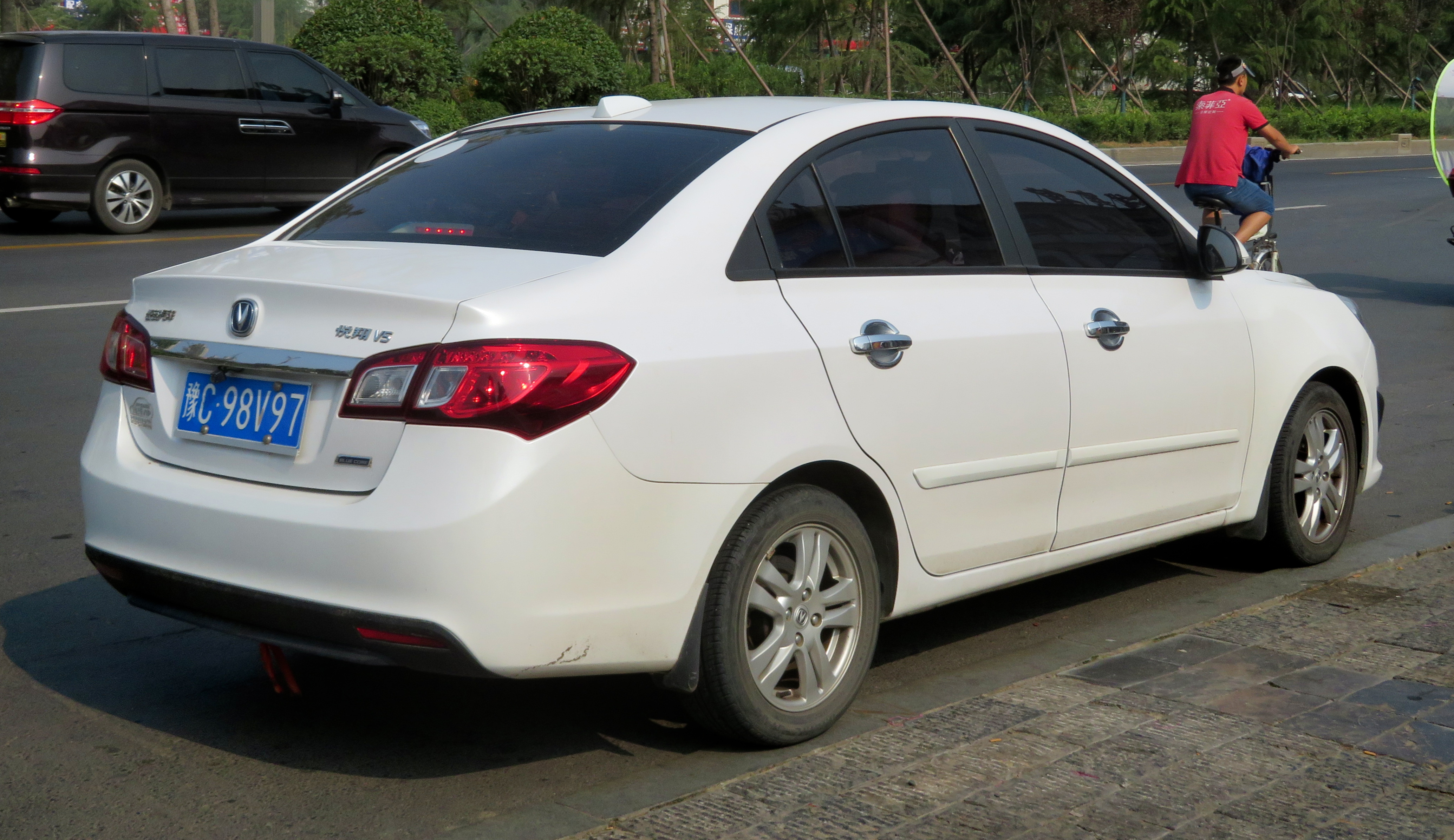 A 2017 Chang'an Alsvin V5 photographed at Guanlinzhen, in Luoyang, Henan province, China